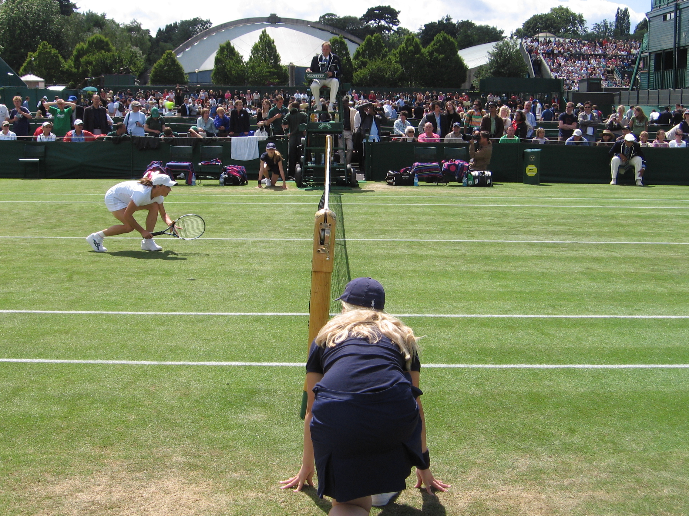 Ball girl at Wimbledon Tennis Championships, 2007